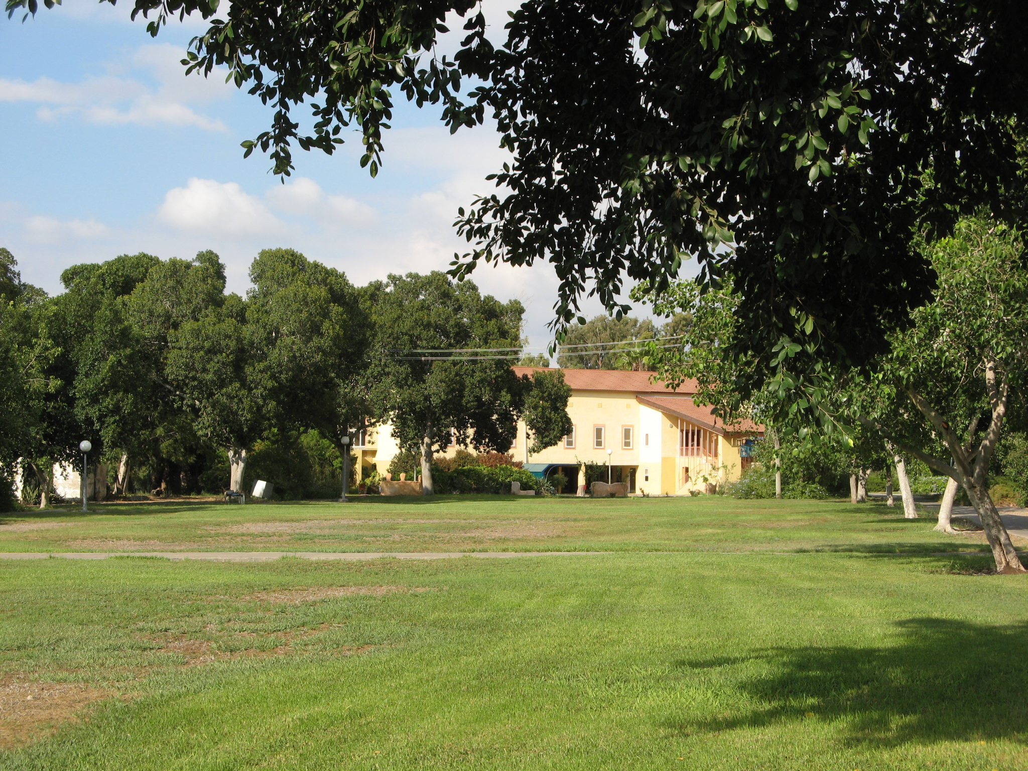 Afek dining building